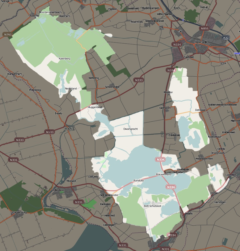 This map may be incomplete, and may contain errors. Don't rely solely on it for navigation.